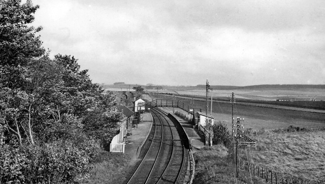 Brucklay Station. View northward, towards Fraserburgh; ex-Great North of Scotland Aberdeen - Maud - Fraserburgh line. Passenger services ceased on 4/10/65 all the way from Dyce Junction (near Aberdeen) to Fraserburgh and the station was closed to passengers (goods were accepted until 28/3/66), but the route remained open throughout until 8/10/79. [Why?]